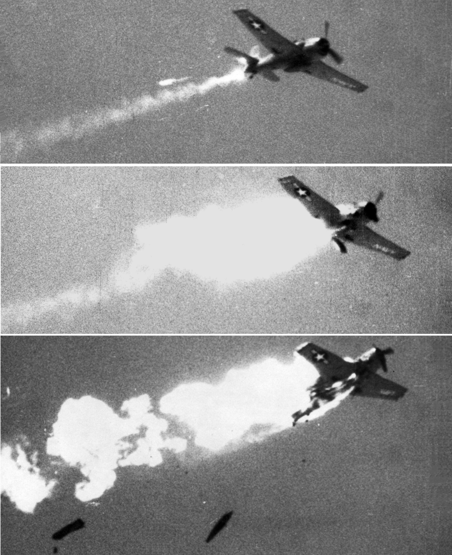 An AAM-N-7 (later AIM-9B) Sidewinder air-to-air missile fired from an Grumman F9F-8 Cougar hits an Grumman F6F-5K Hellcat drone over Naval Ordnance Test Station (NOTS) China Lake, California (USA), 19 August 1957.